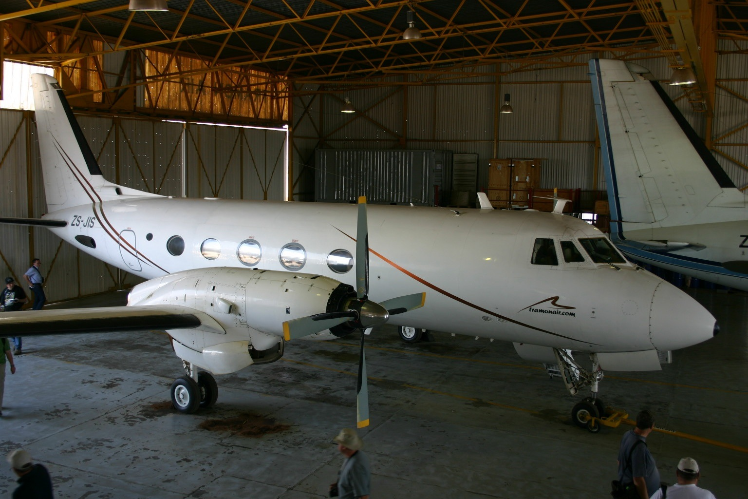 At Lanseria International Airport